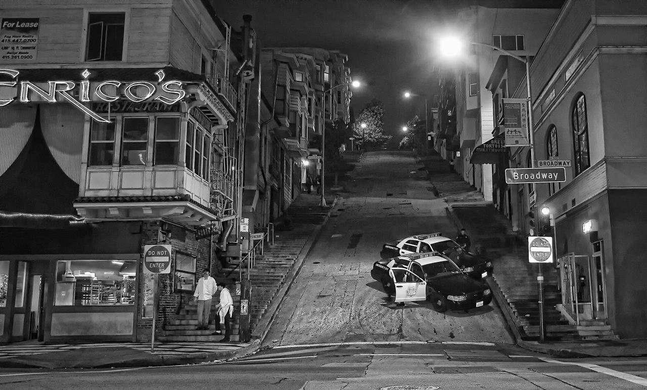 Night time view of Enrico's at Kearny street and Broadway in San Francisco, CA, USA. San Francisco Police Department vehicles visible on the slope of Kearny.